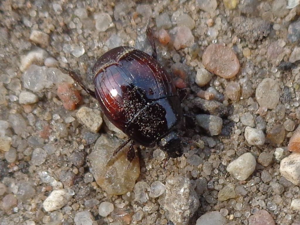 Margarinotus purpurascens. Found in Riga town, Latvia